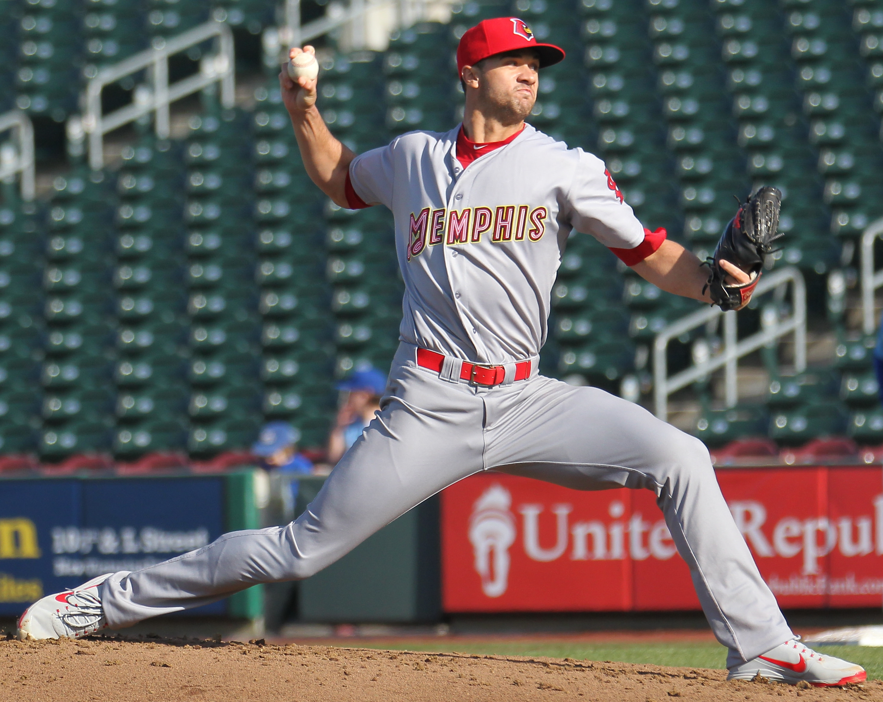 Minda Haas Kuhlmann | 2018 USAGE INSTRUCTIONS: You are welcome to share or publish to your own site or social media account, but you MUST credit me, Minda Haas Kuhlmann. Twitter: @minda33. Instagram: minda.haas